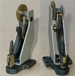 Microscope mechanism.